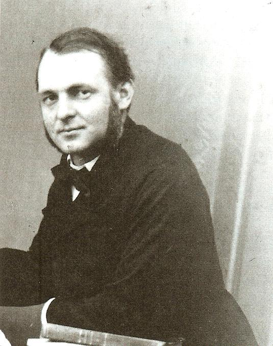 Friedrich Adolph Hach, photography (cropped) by Hermann Linde, 1864